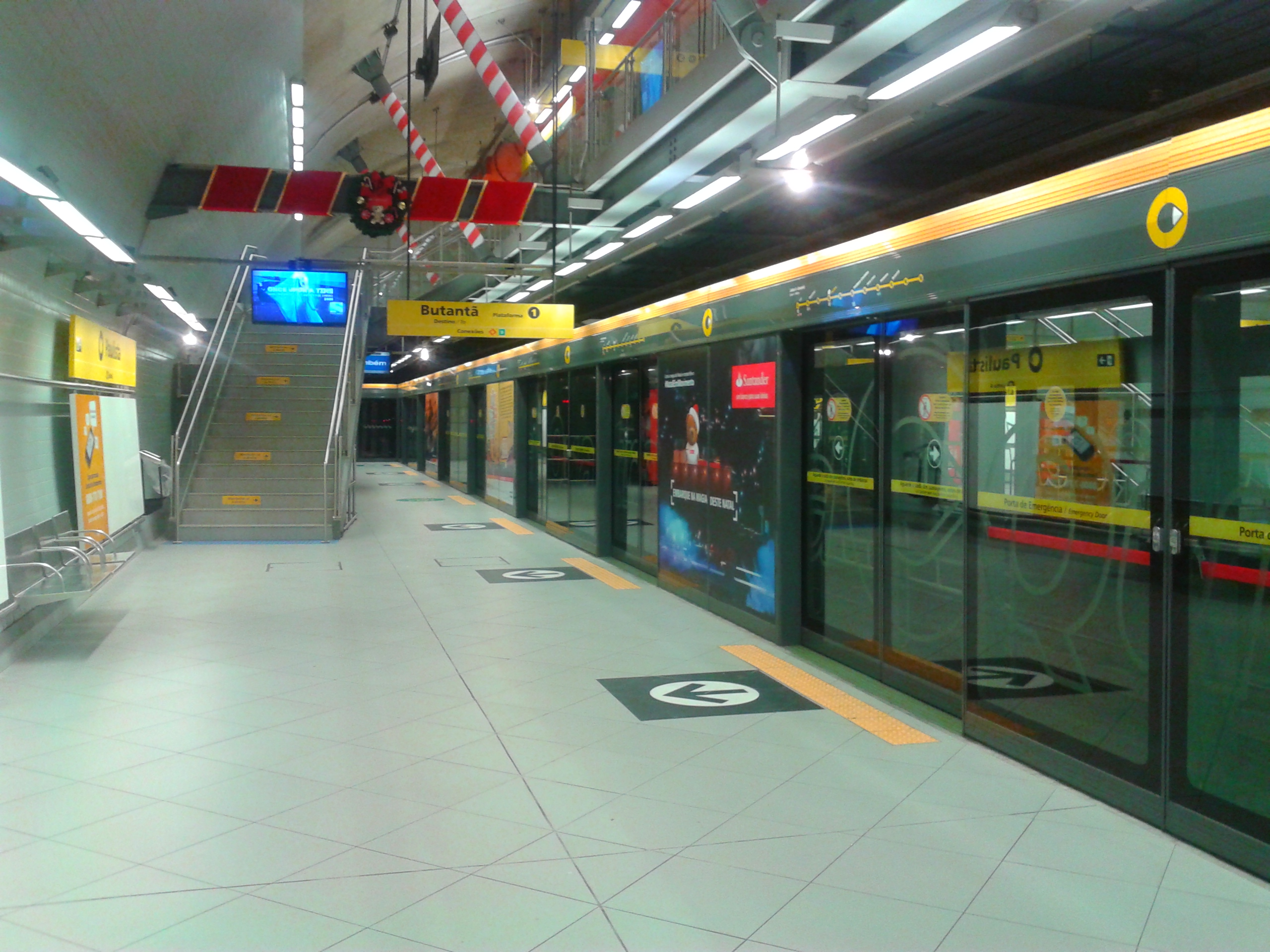 Line 4 (Yellow Line) is a line of the São Paulo Metro, originally called Southeast-Southwest Line.